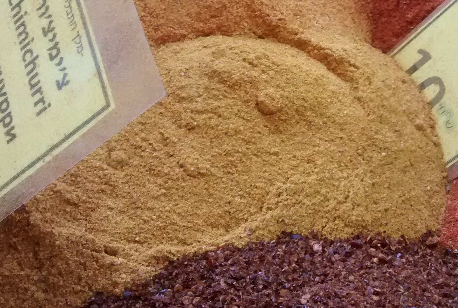 Hawaij for sale with other spices in Tel Aviv, Israel.